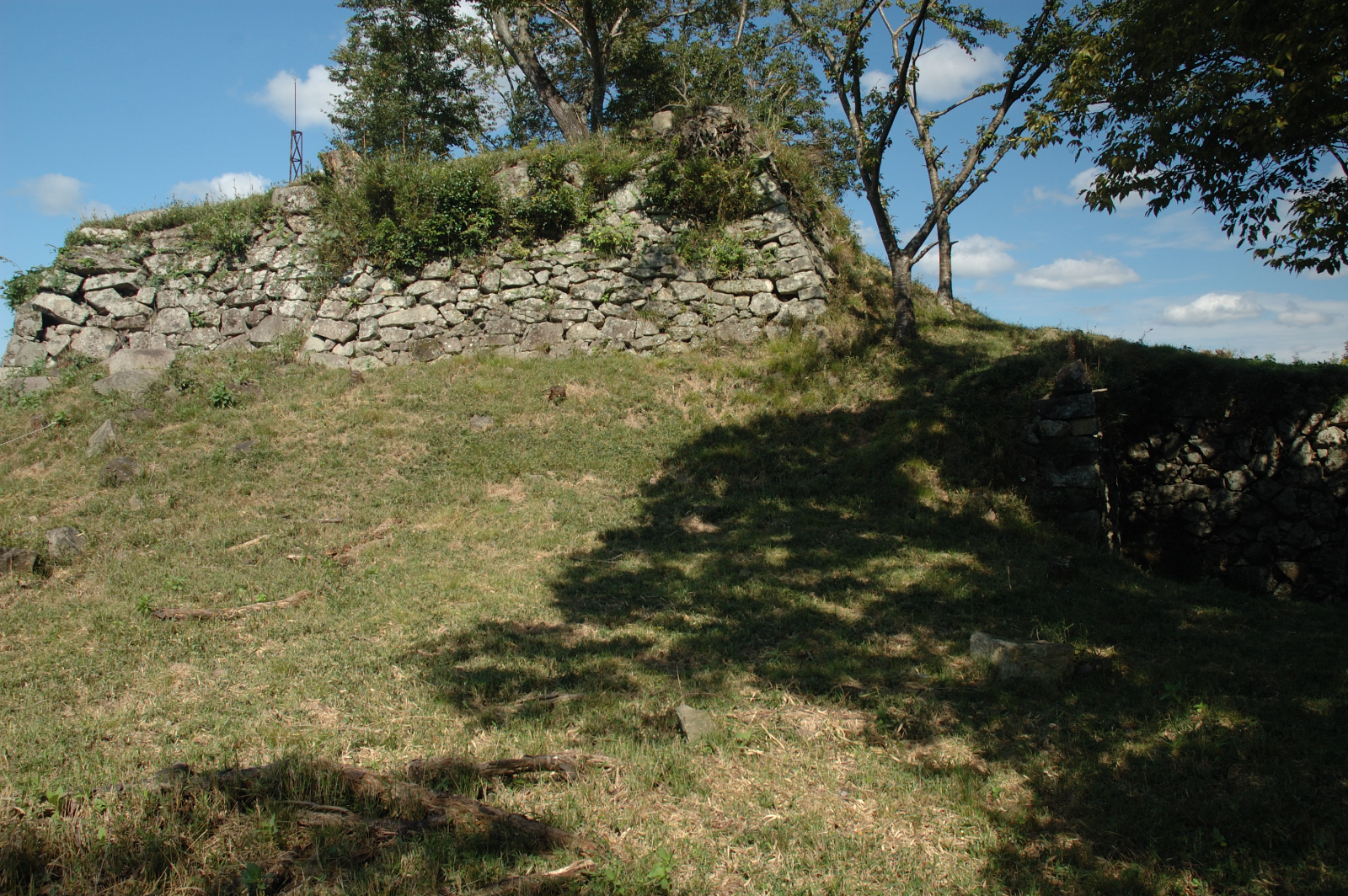 south side stone wall of Hon-maru